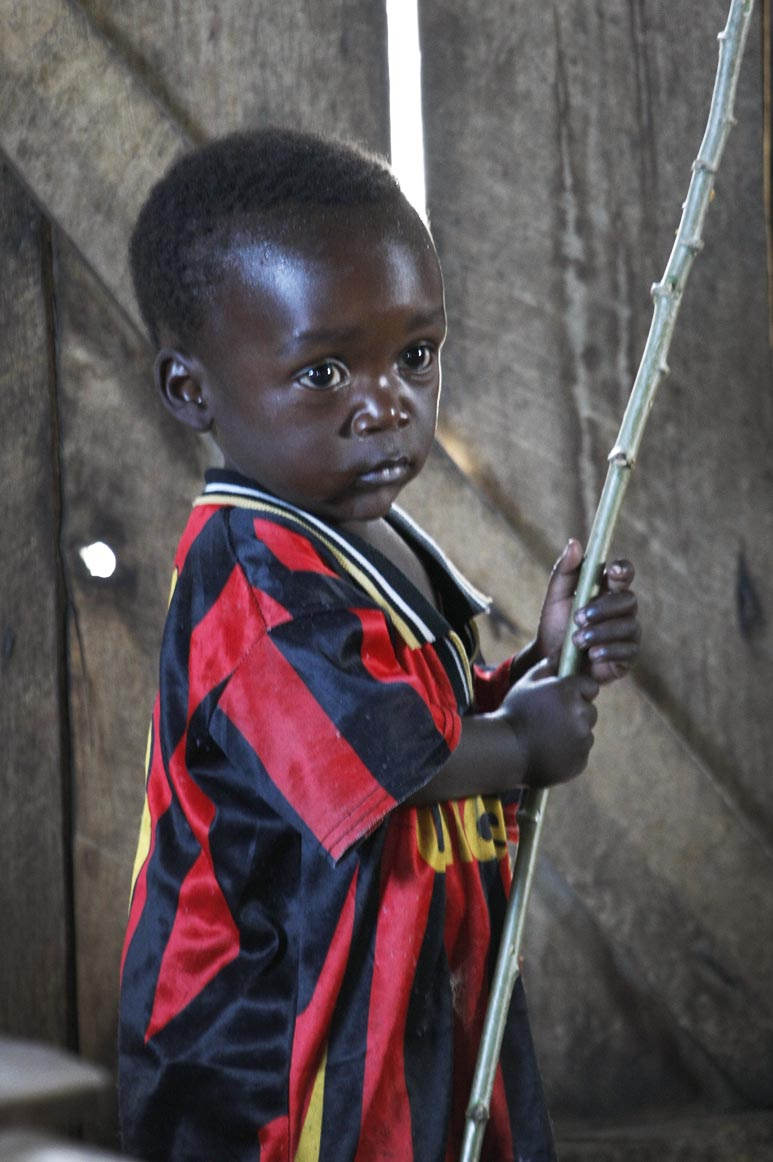 A little boy at one of the refugee camps in Goma.